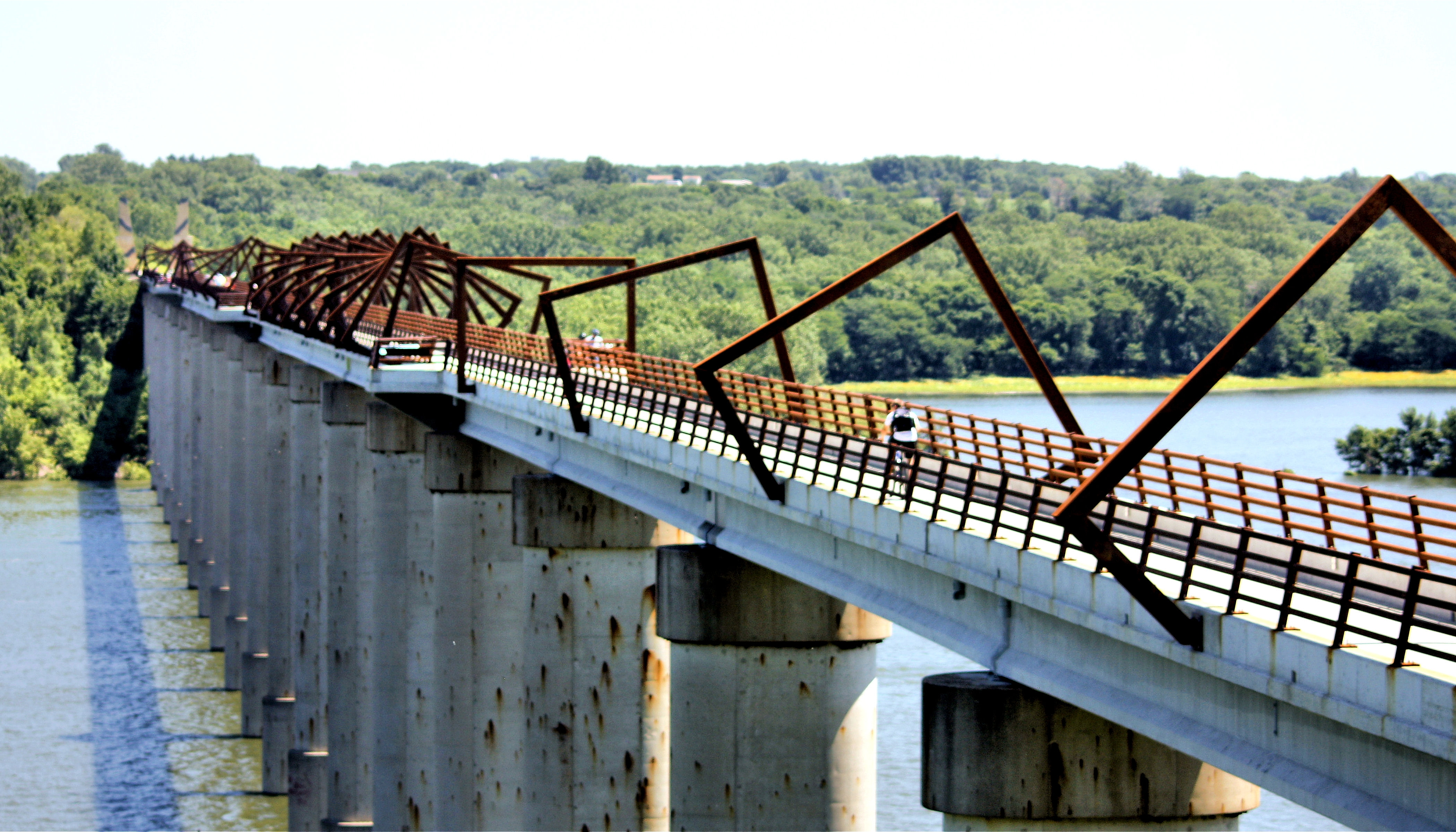 I posted some photos of this bridge back in November, before the public art component was installed. The bridge is a half-mile long and 13-stories above the Des Moines River at it's highest point, and is a part of the new 25-mile long High Trestle Trail. This view is from part of an old 1912 railroad bridge, which now provides a viewing platform for the new structure and the river valley.